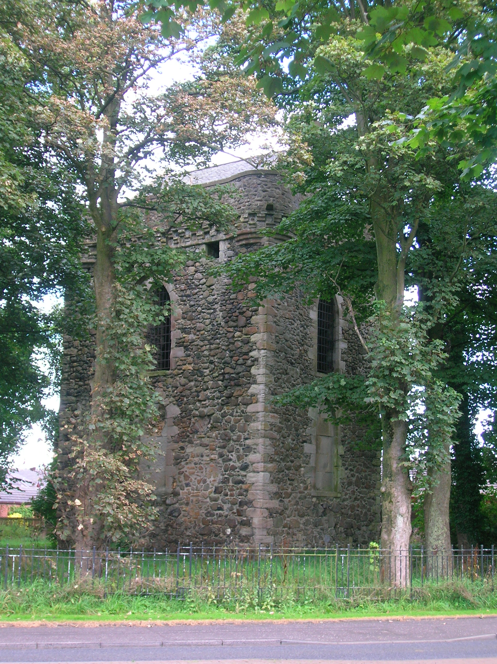 Stanecastle in Irvine, North Ayrshire, Scotland. Rosser 21:11, 8 September 2007 (UTC)